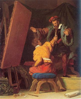 Aretino in the Studio of Tintoretto, painting in Colnaghi